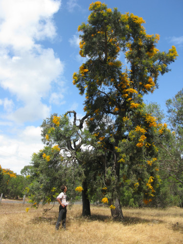 Dr David M Watson standing next to the hemiparasitic tree Nuytsia floribunda, the West Australian Christmas Tree